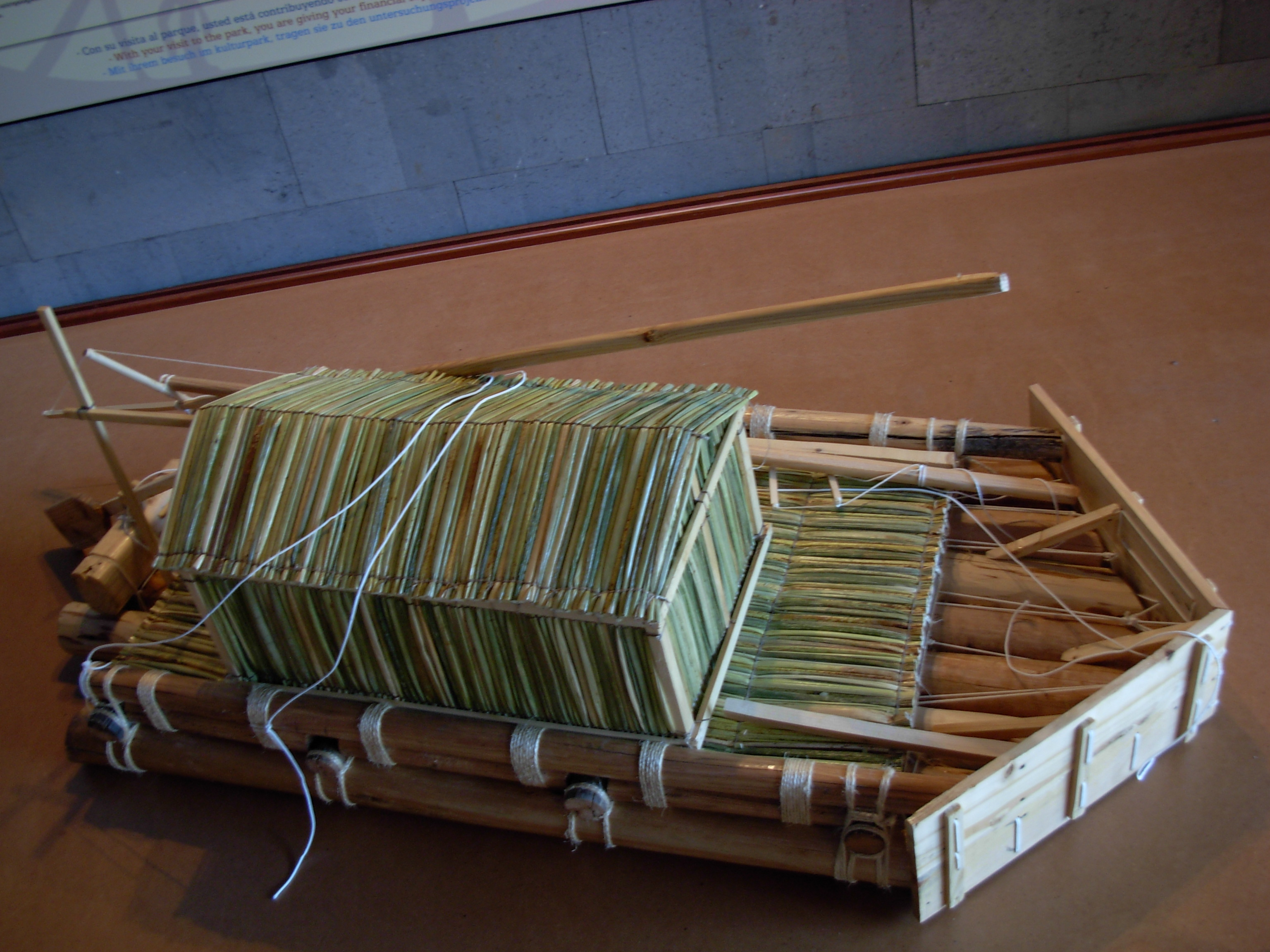 Pyramids of Güímar Museum, Tenerife. Model of the Kon Tiki.Sailed in 1947 for 101 days through Atlantic Ocea (8000km).